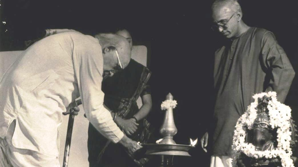 SSI with KSS